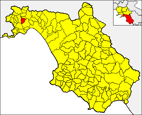 Locator map of the municipality of Nocera Superiore (red) within the Province of Salerno